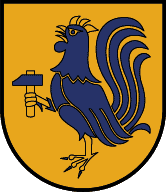 Source: "Fahnen-Gärtner GmbH, Mittersill" This file depicts a coat of arms. The composition of coats of arms are generally public domain with respect to copyright laws, and may be reproduced freely. This corresponds to the international traditional usage, and is explicitly stated in some national copyright laws. Some compositions, of more recent origin, may be copyrighted. This is not a valid license as such, being a "public domain" statement for the coat of arms definition only. It must be completed with the copyright tag associated to the picture creation. See Commons:Coats of arms for further information. Please note that this applies only to the coat of arms definition (composition / description). The representation of a coat of arms is an artistic creation, subject as such to copyright laws. Restriction of use - Legal notice: Most of the time, the usage of coats of arms is governed by legal restrictions, independent of the status of the depiction shown here. A coat of arms represents its owner. Though it can be freely represented, it cannot be appropriated, or used in such a way as to create a confusion with or a prejudice to its owner. Usage on Commons: Please provide licence information for the coat of arm representation, information for the author of the picture, and the source if not self-made work. This image is in the public domain according to Austrian copyright law because it is part of a law, ordinance or official decree issued by an Austrian federal or state authority, or because it is of predominantly official use. (§7 UrhG) To uploader: Please provide where the image was first published and who created it.